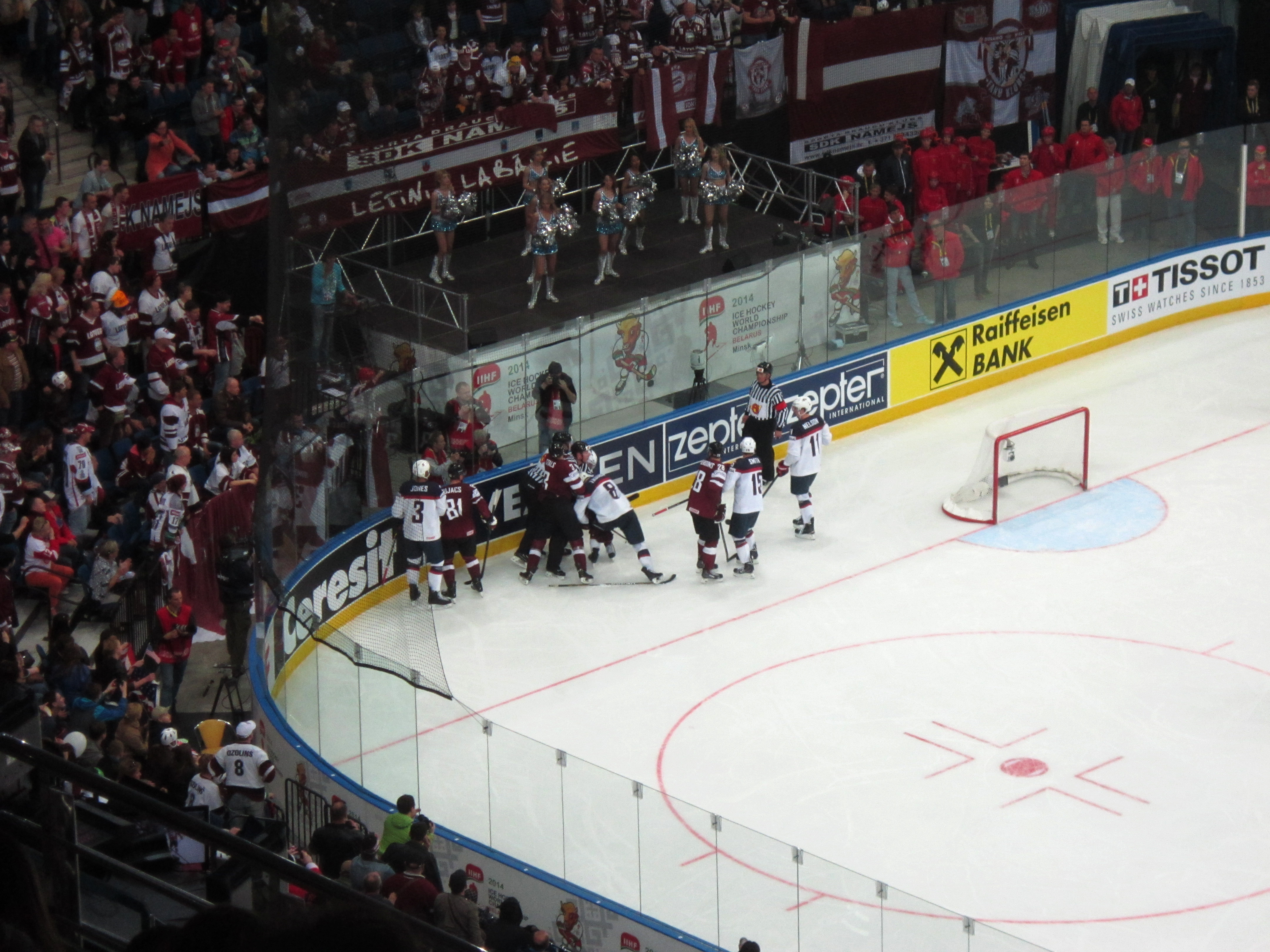 Game USA-Latvia (IIHF World Championship 2014, Minsk, Belarus)